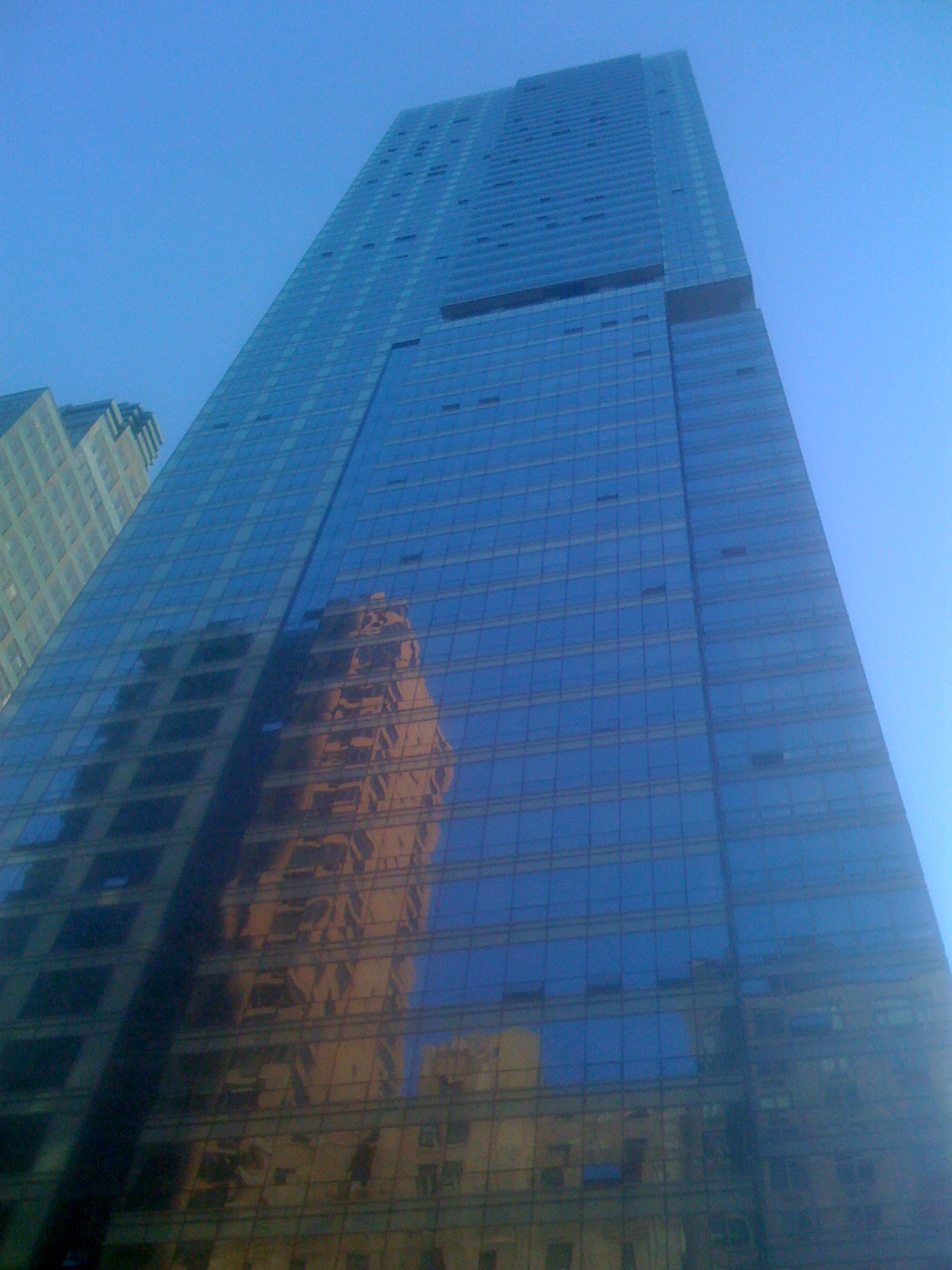 This photo is of Wikis Take Manhattan goal code C35, The Orion.